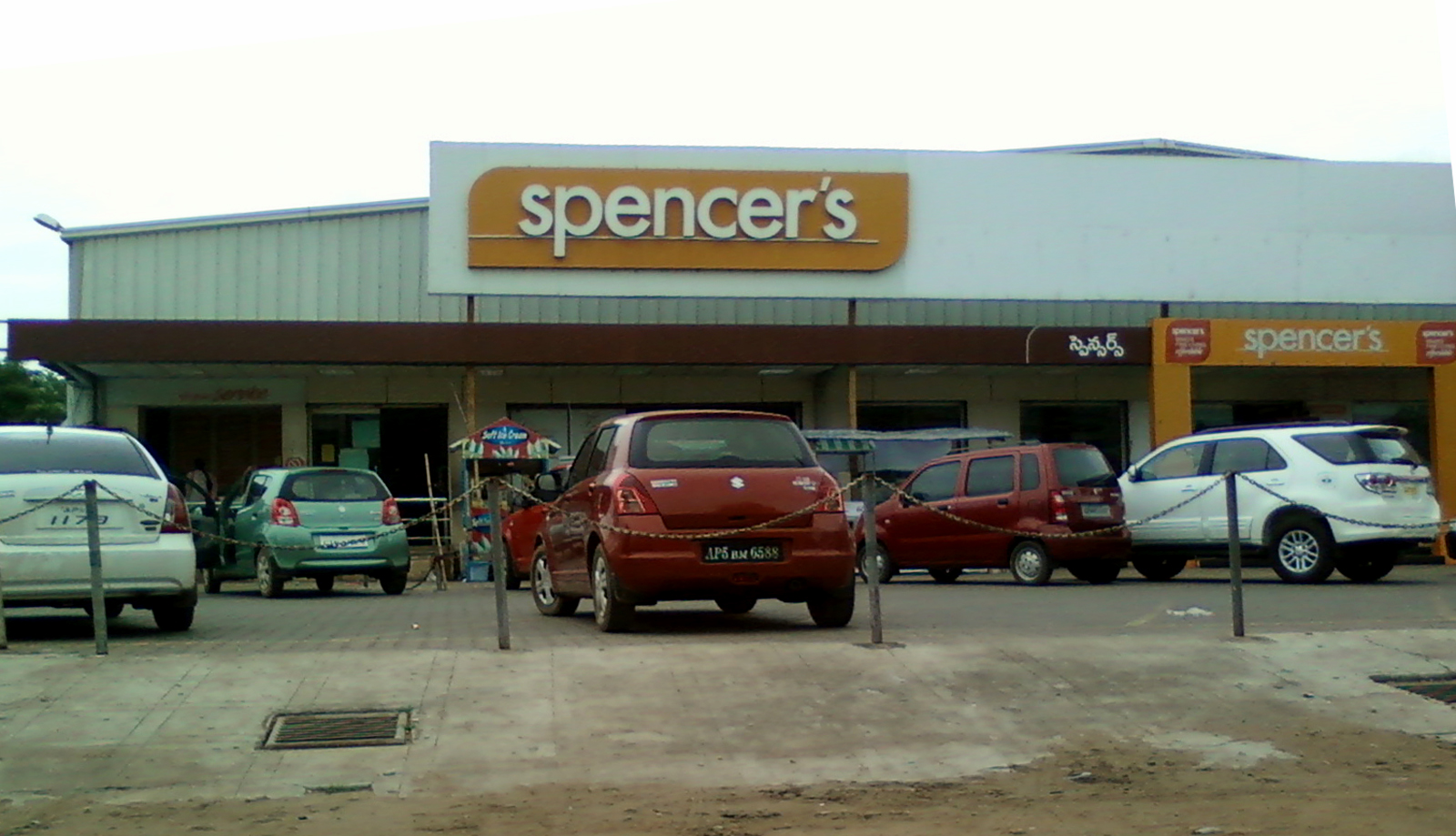 Spencers Hyper Market, Kakinada city, Andhra Pradesh